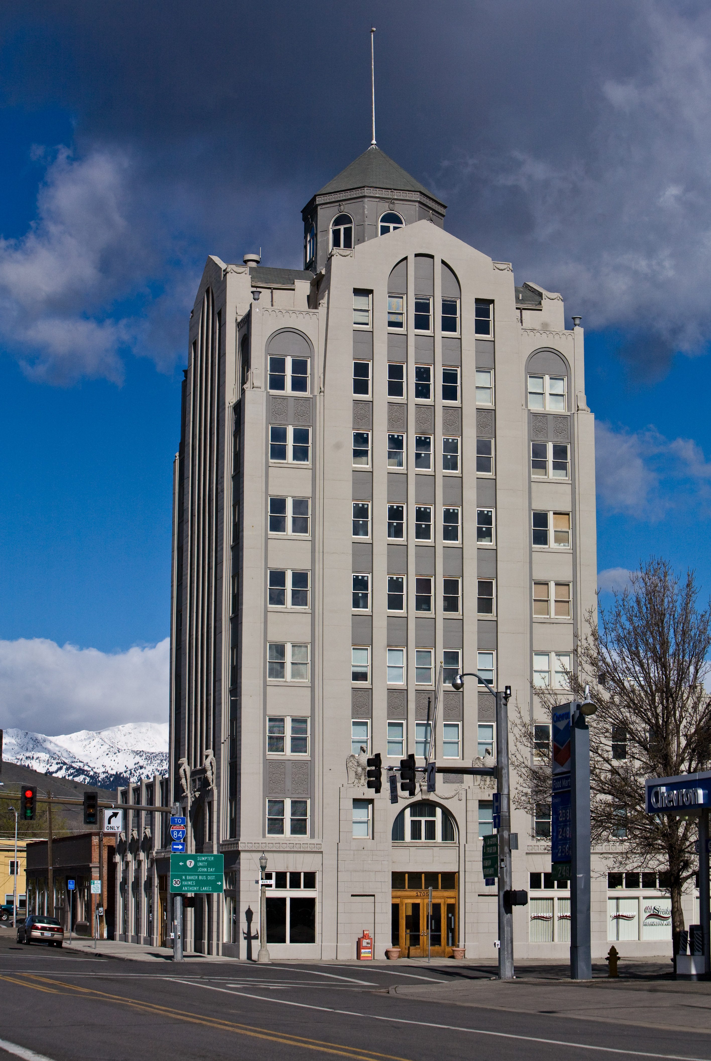 The Baker City Tower in downtown Baker City, Oregon.